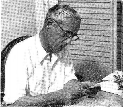 José Luis Salinas. Argentinian comic artist.